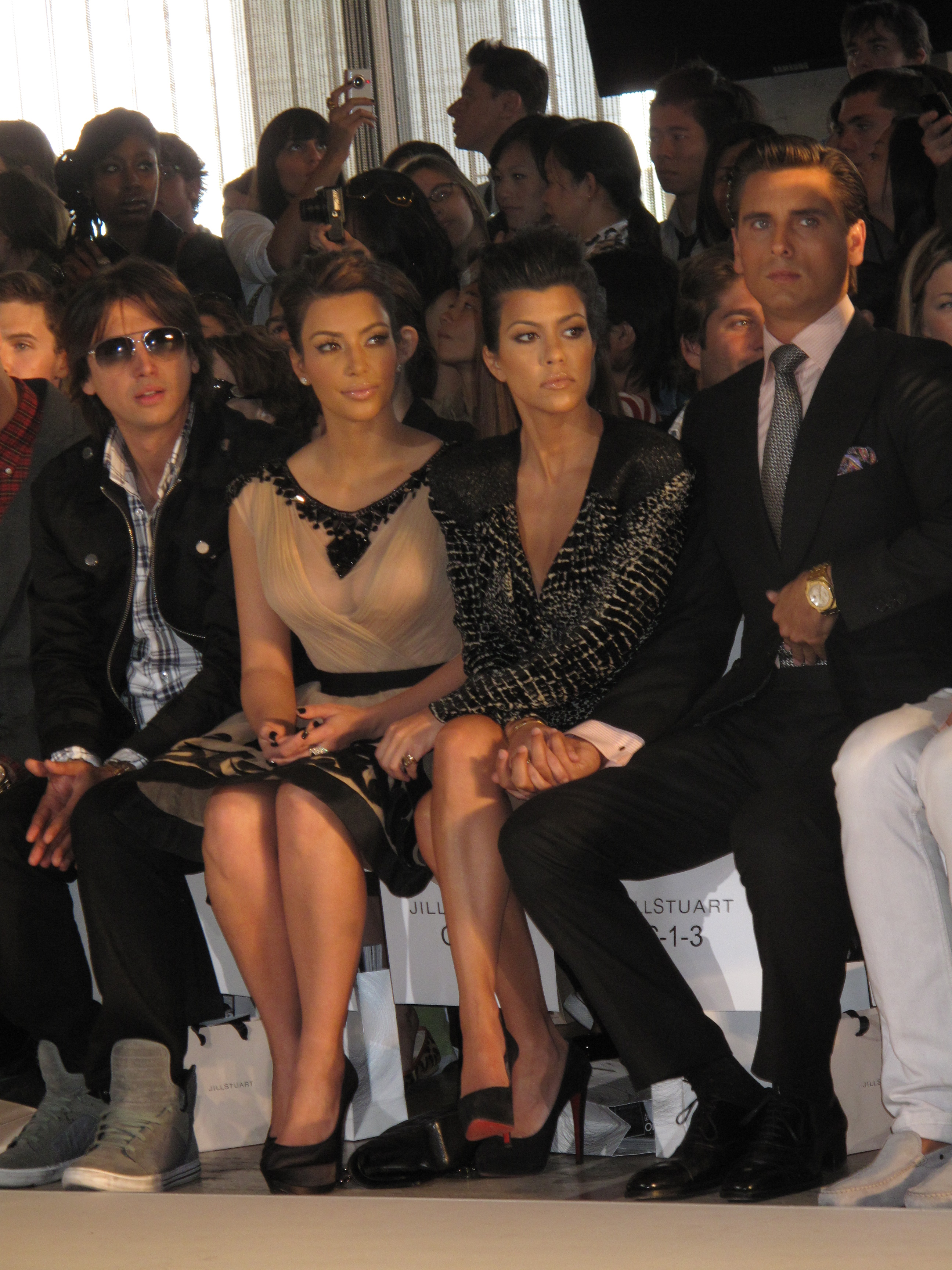 The Kardashian Sisters at Mercedes-Benz Fashion Week 2010